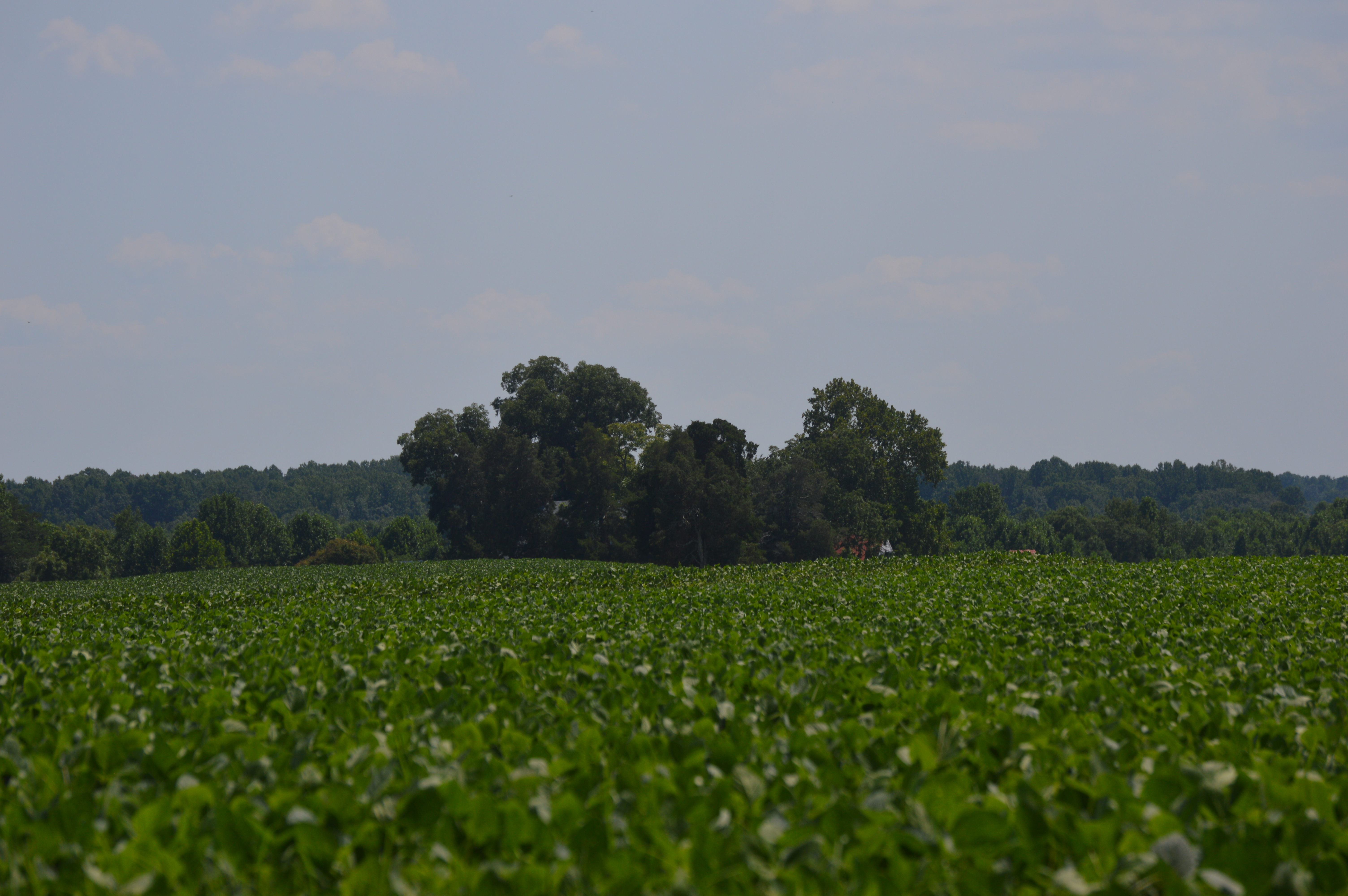 Distant view from the north of the Springfield estate, located off Old Ridge Road near Coatesville in Hanover County, Virginia, United States. Built in 1820, the estate house is listed on the National Register of Historic Places.